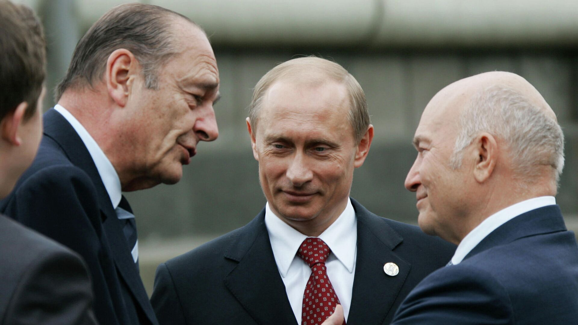 DE GAULLE SQUARE, MOSCOW. At the Unveiling of a Monument to General Charles de Gaulle. With French President Jacques Chirac (left) and Moscow mayor Yuri Luzhkov (right).